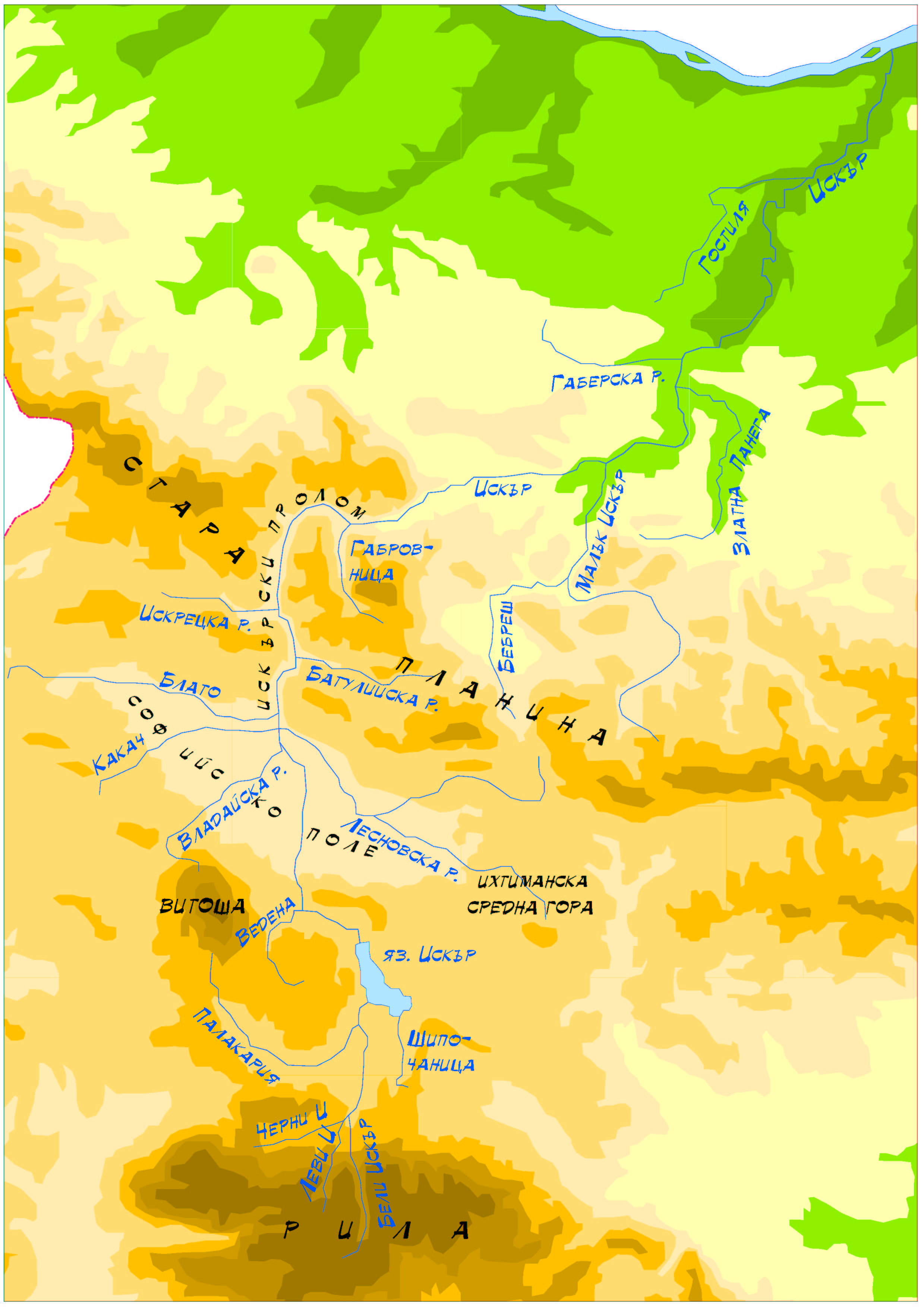 Map of the Bassin of Iskar river in Bulgaria